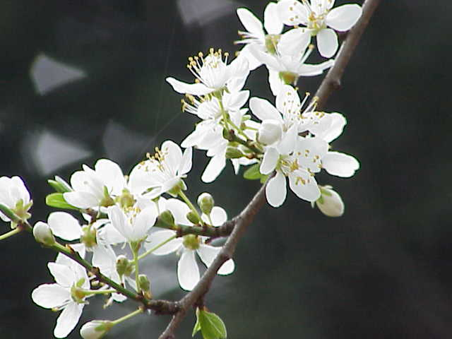 Species: Prunus cerasifera Family: Rosaceae Image No. 2